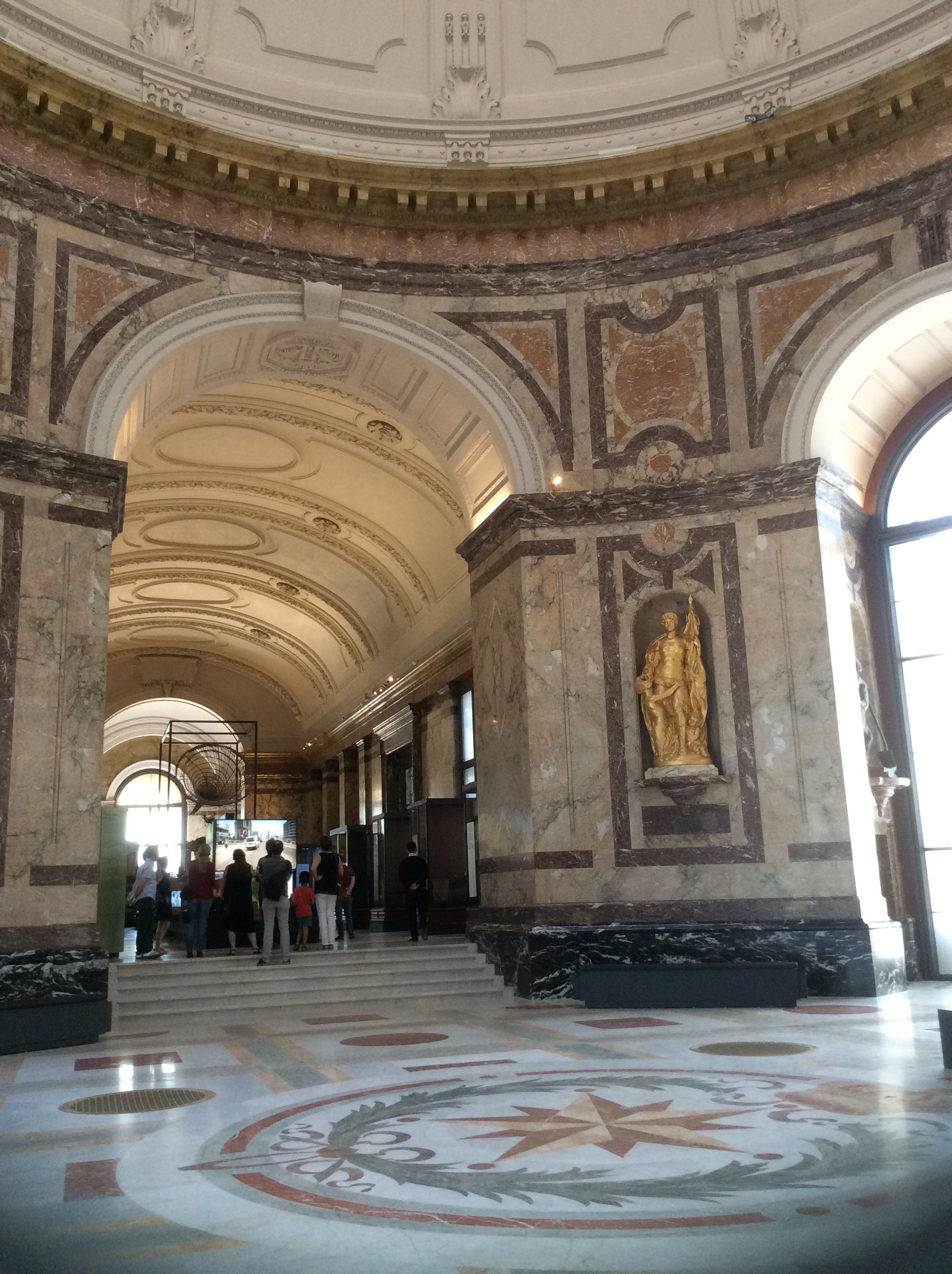 Central Hall Royal Central African Museum